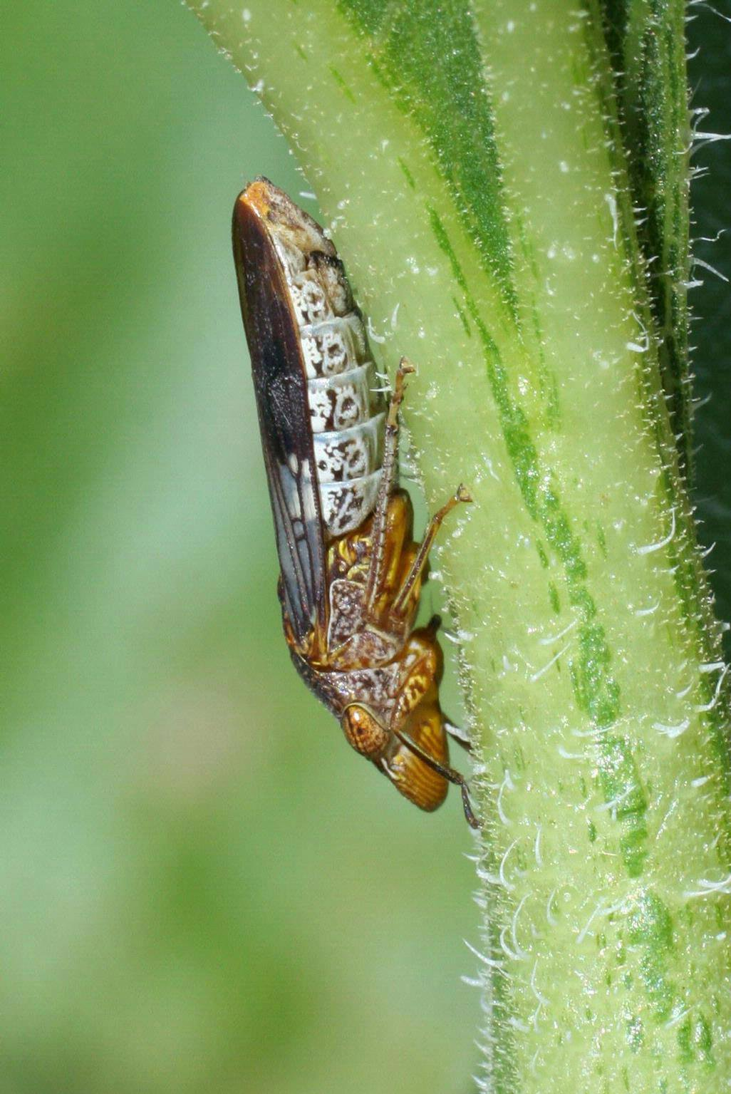 Homalodisca vitripennis Germar, 1821 Host: common sunflower Helianthus annuus L. Common Name: glassy-winged sharpshooter Photographer: Russ Ottens, University of Georgia, United States Descriptor: Adult(s) Image taken in: United States